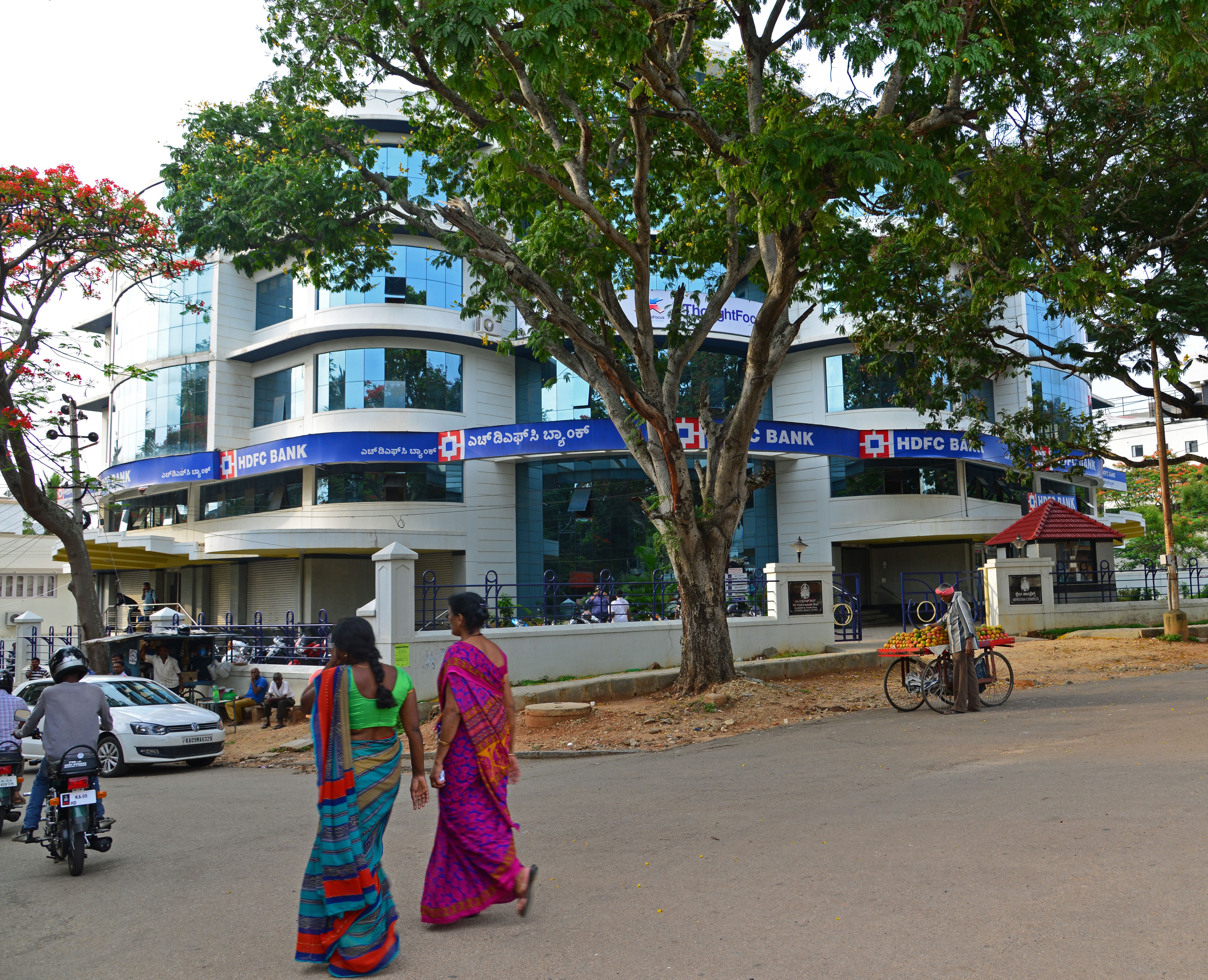 HDFC Bank, Temple Road, Mysore